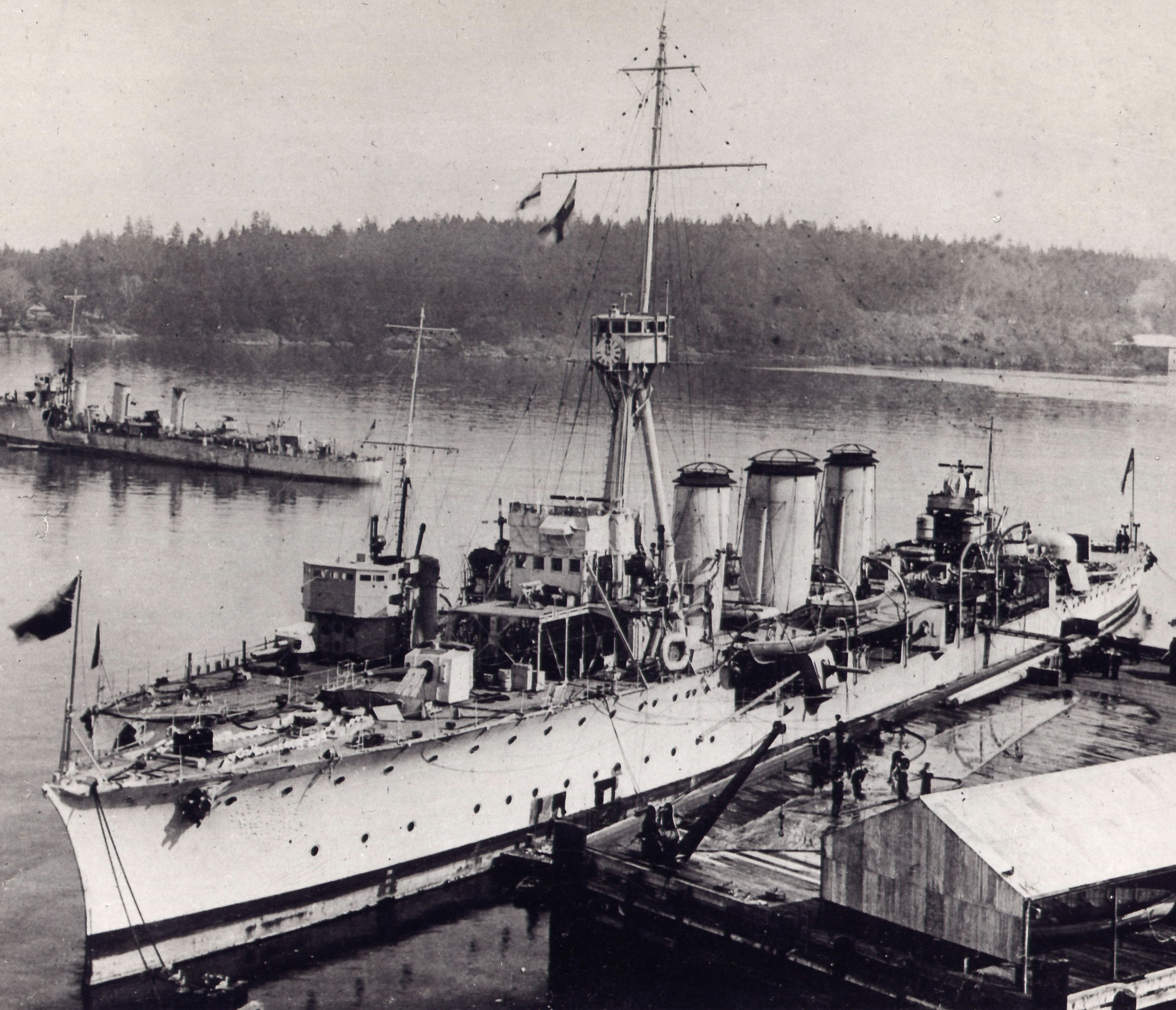 HMC Ships AURORA (foreground) and destroyers PATRIOT and PATRICIAN in Esquimalt Harbour, BC, Canada.